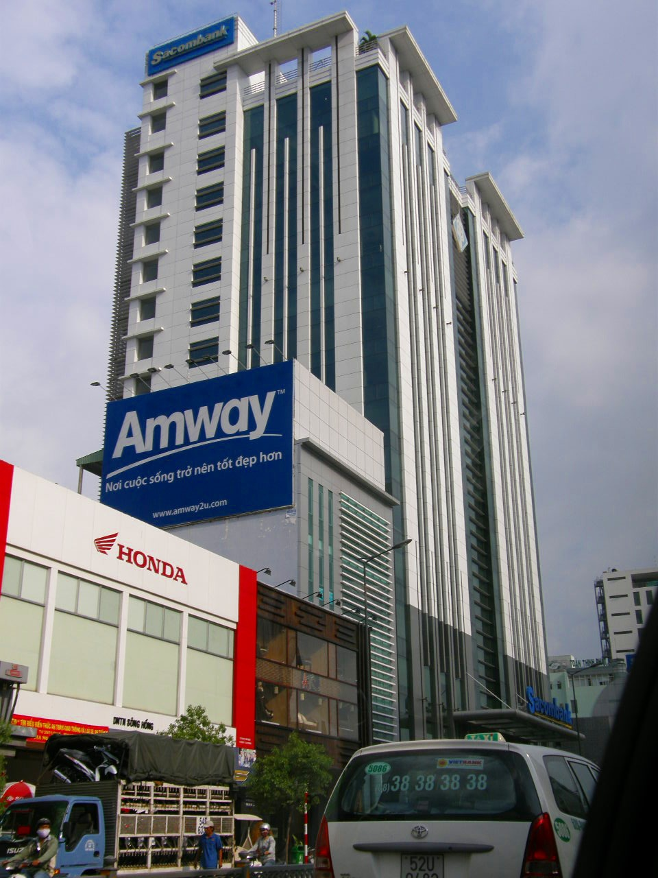 Honda- Amway（AVCL）Hồ Chí Minh